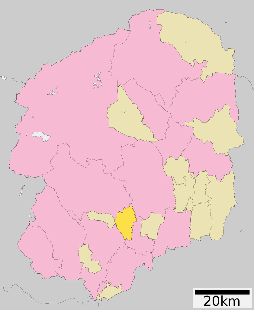 Location of Mibu in Tochigi Prefecture